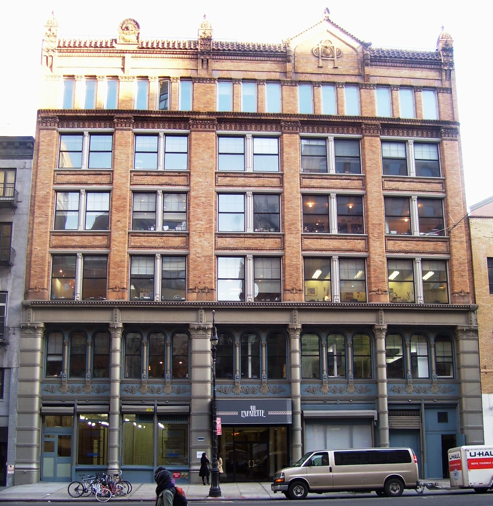 411 Lafayette Street between East 4th Street and Astor Place in the NoHo district of lower Manhattan, New York City, is an ornate cast iron and brick building designed by Alfred Zucker and built in 1891. It was restored in 1987 and is used by New York University.